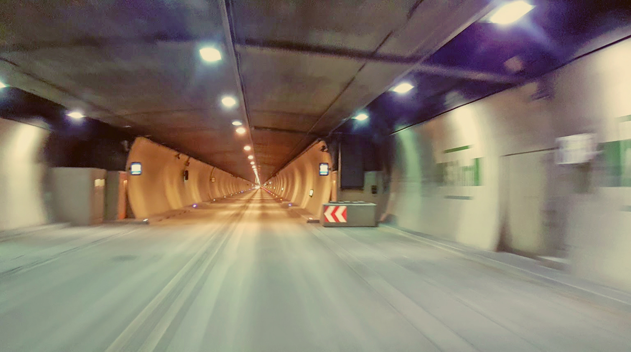 Inside the Karawanks Motorway Tunnel